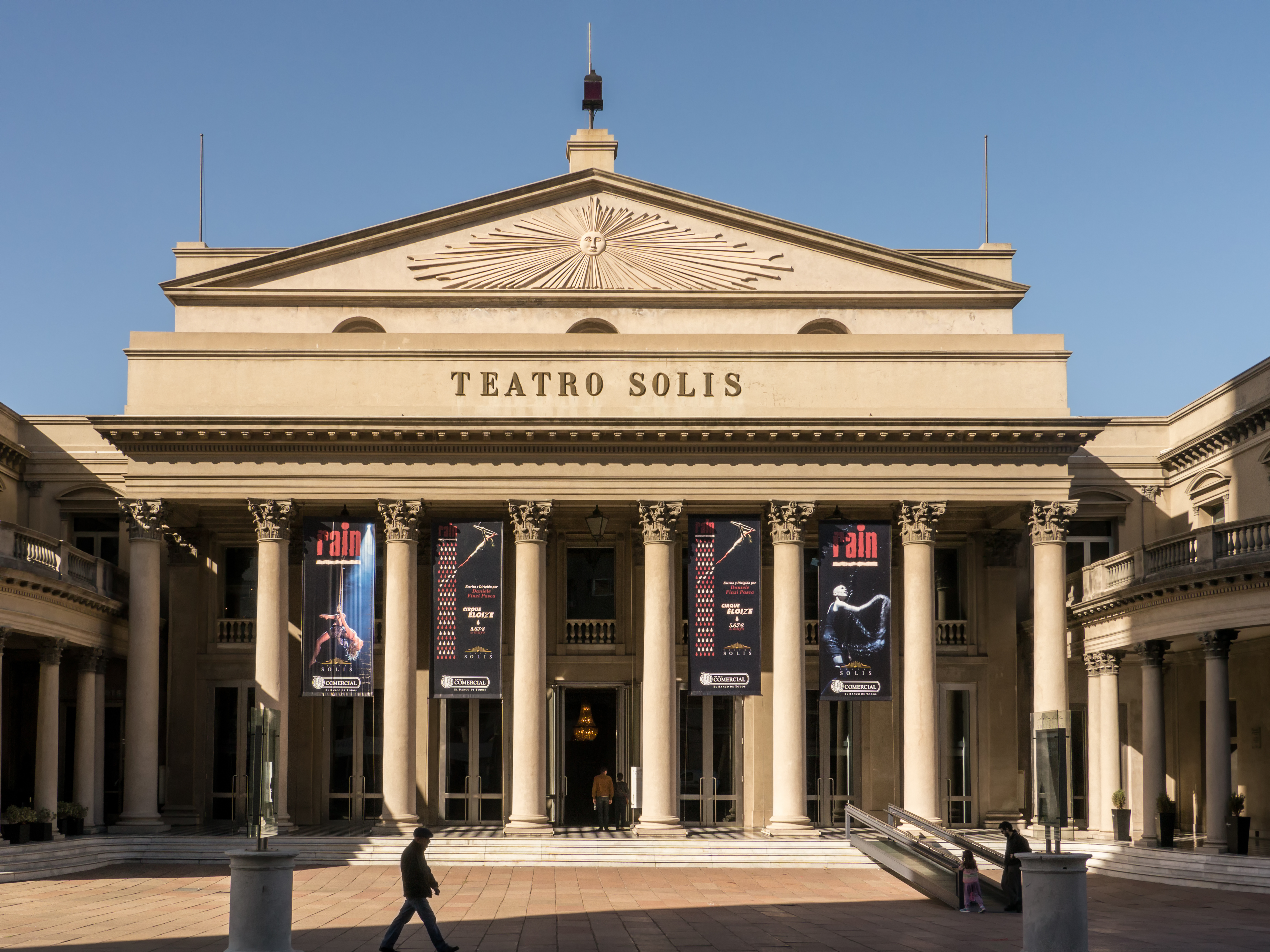 Solis theatre in Montevideo. The programme currently contains the piece "Rain" by Daniele Finzi Pasca performed by the Ensemble Cirque Éloize.